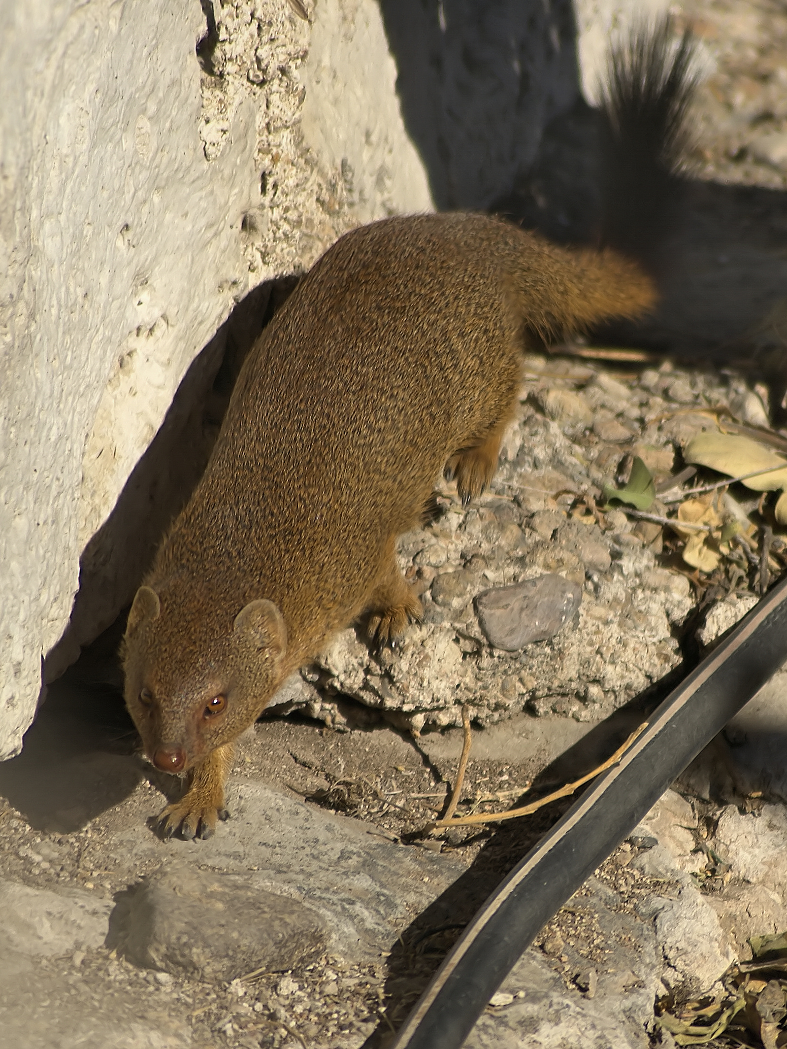 An Angolan Slender Mongoose at Okaukuejo waterhole, Etosha National Park, Namibia